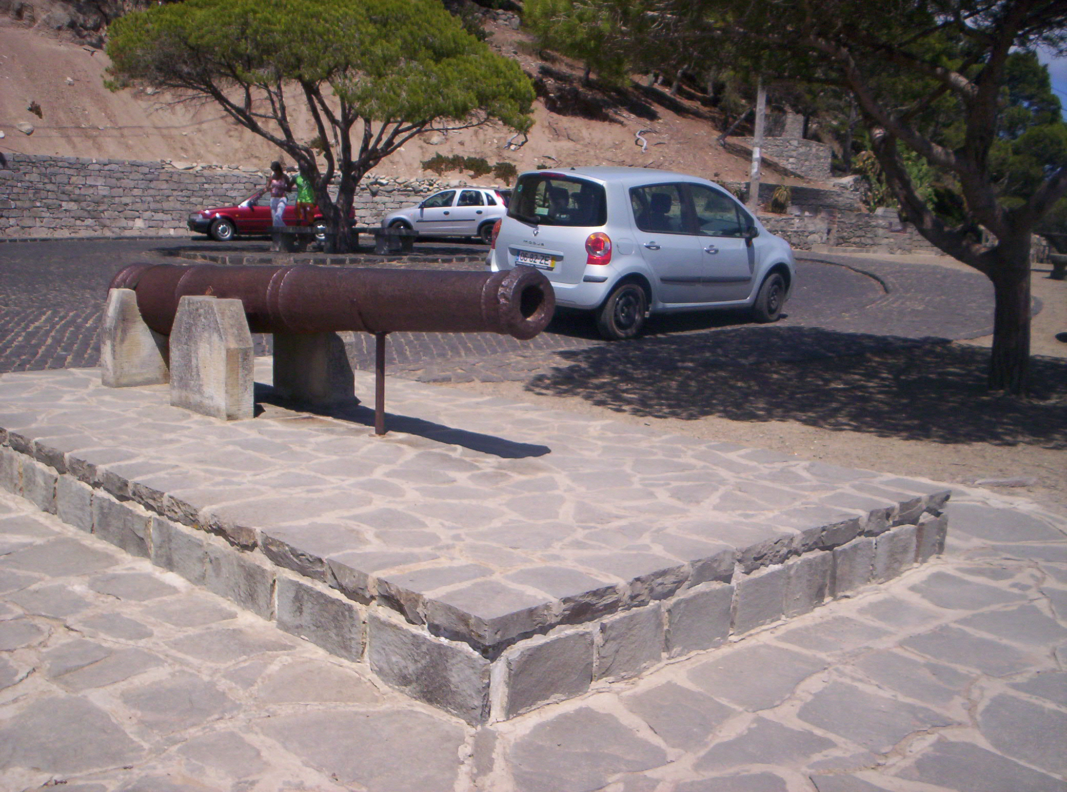 Pico do castelo, Porto Santo, Portugal.